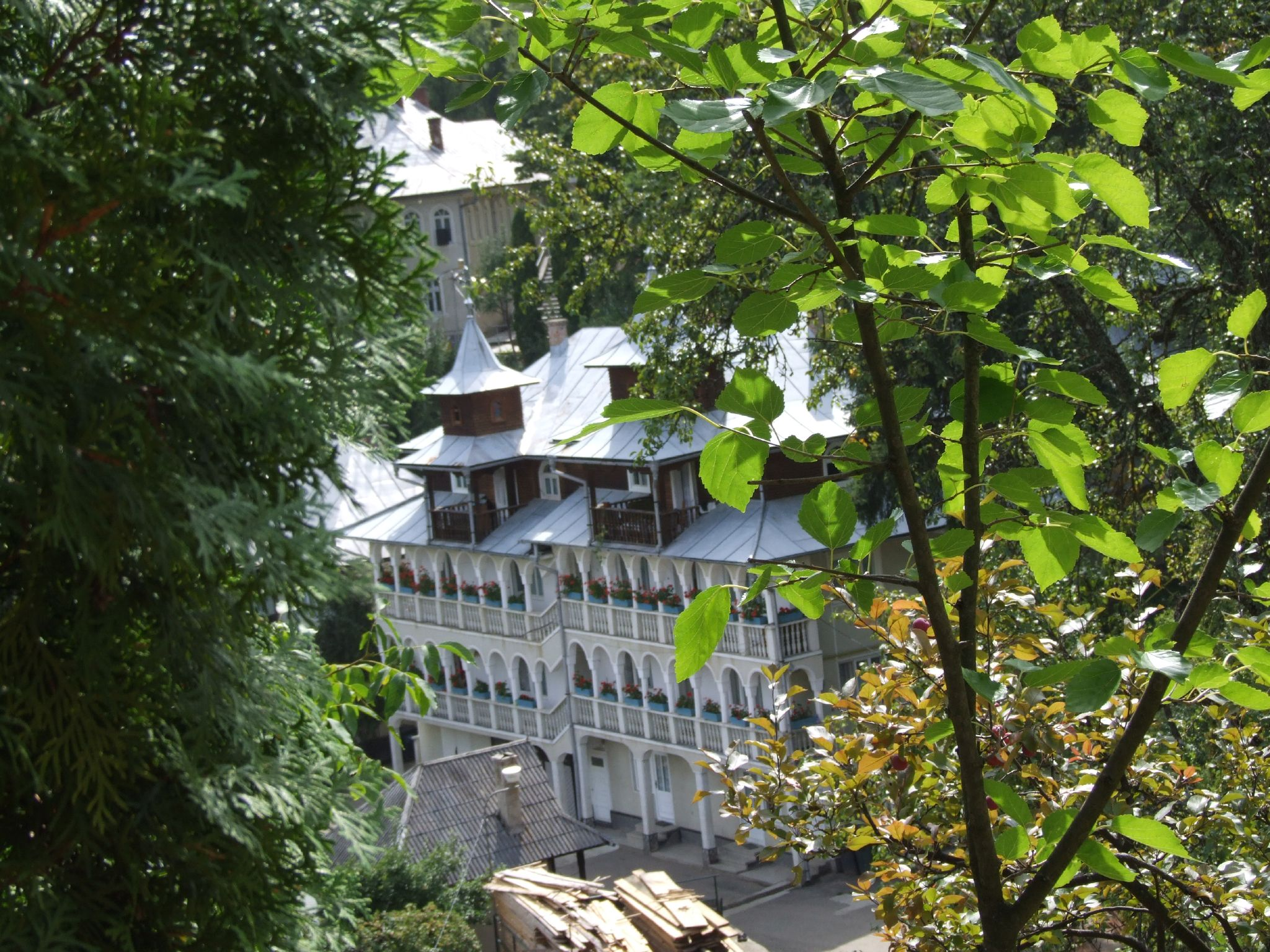 Orthodox monastery in Rohia, Maramureş County, Romania